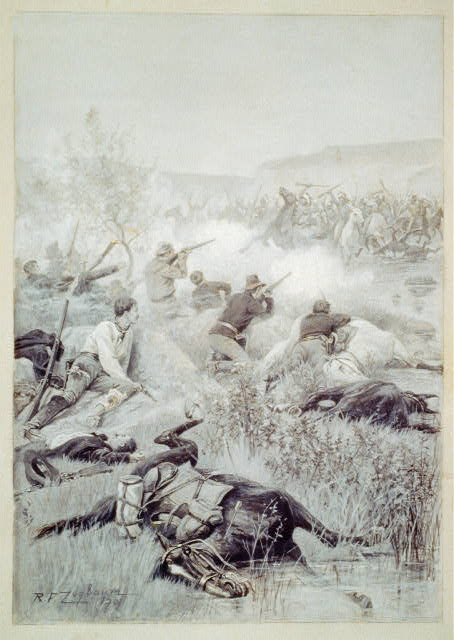 Defeat of Roman Nose by Colonel Forsyth